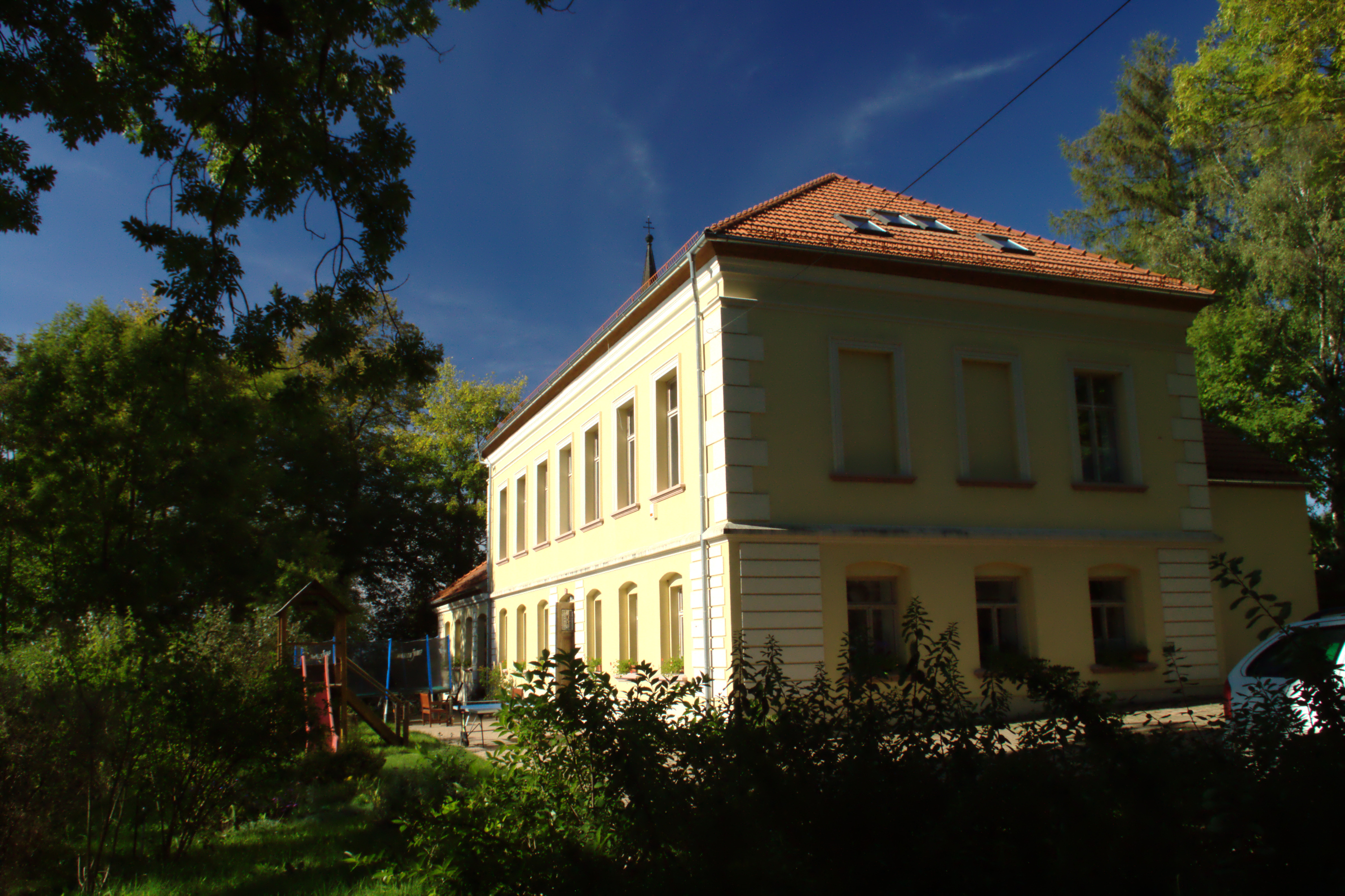 Former school building in Malejovice near Uhlířské Janovice, Central Bohemia